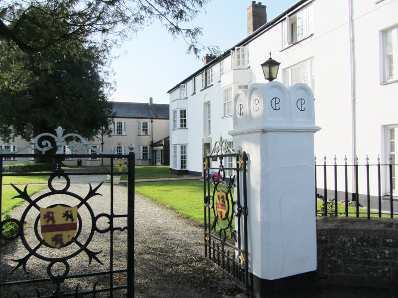 PC